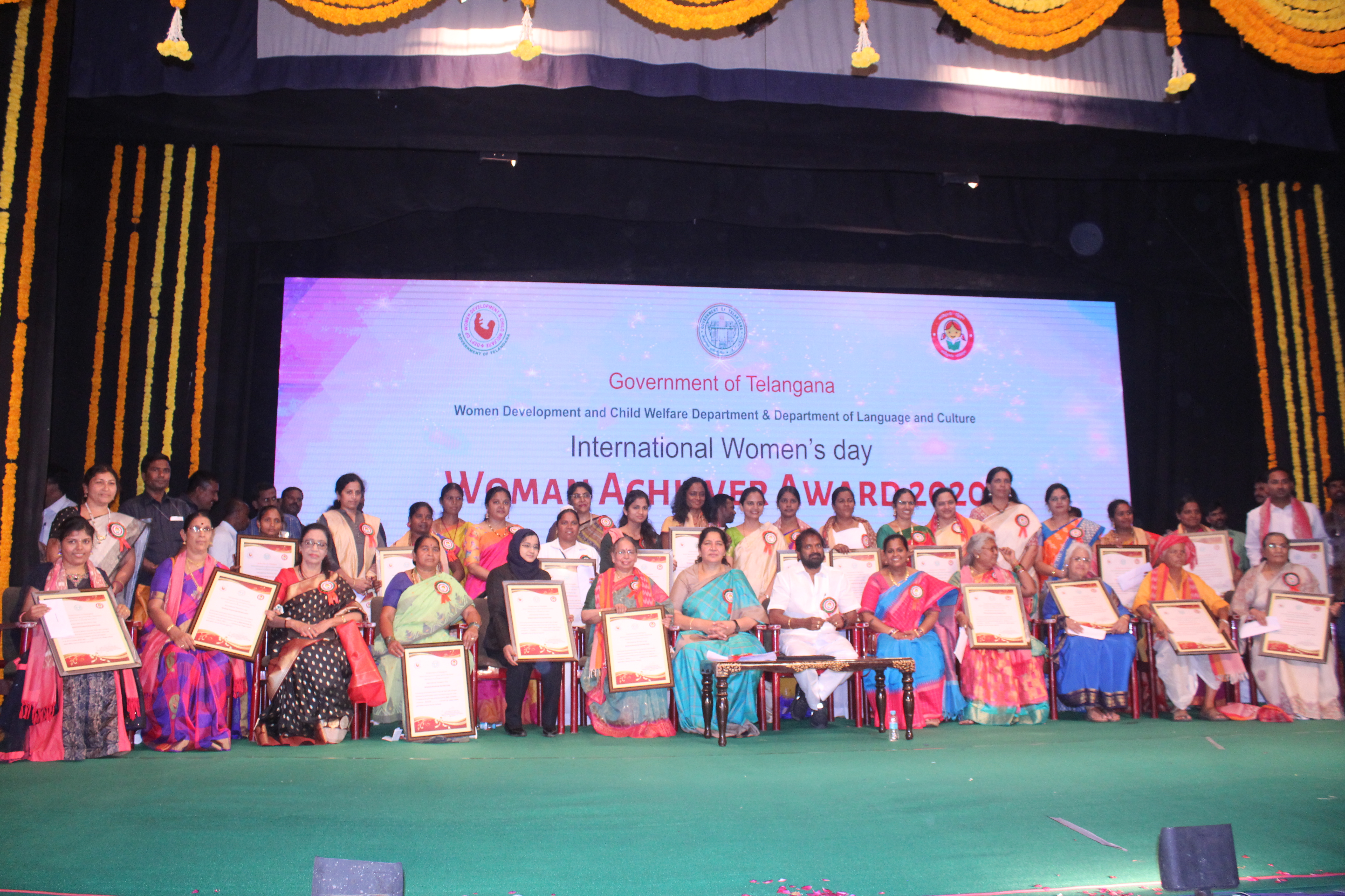 Telangana Eminent Women Awards 2020 by Telangana Government on 08th March 2020 on occasion of World Women's Day Celebrations in Ravindra Bharathi, Hyderabad, Telangana.